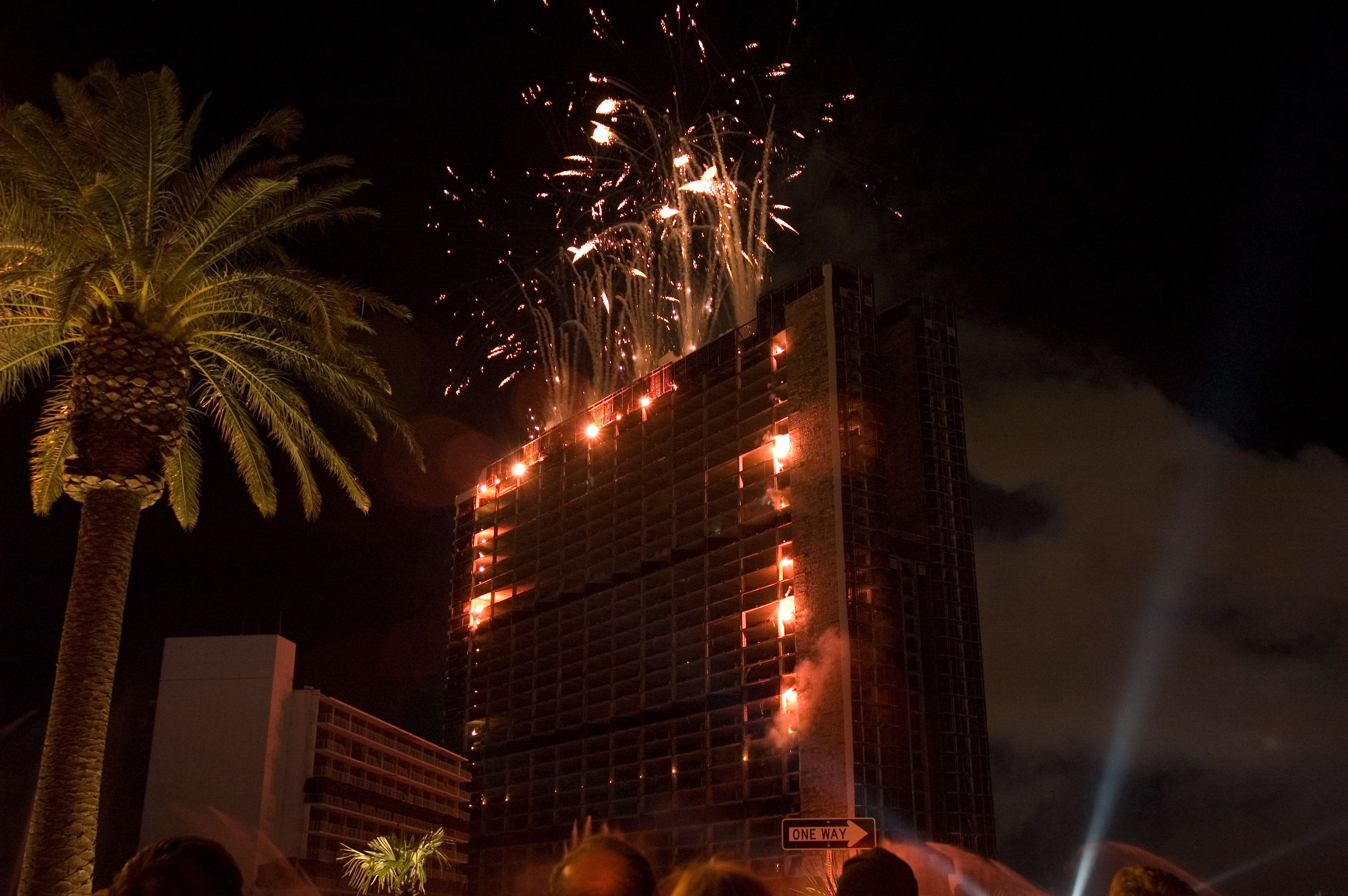 Fireworks light up the Stardust hotel in Las Vegas, Nevada as demolition charges inside begin to take down the building. See more photos at